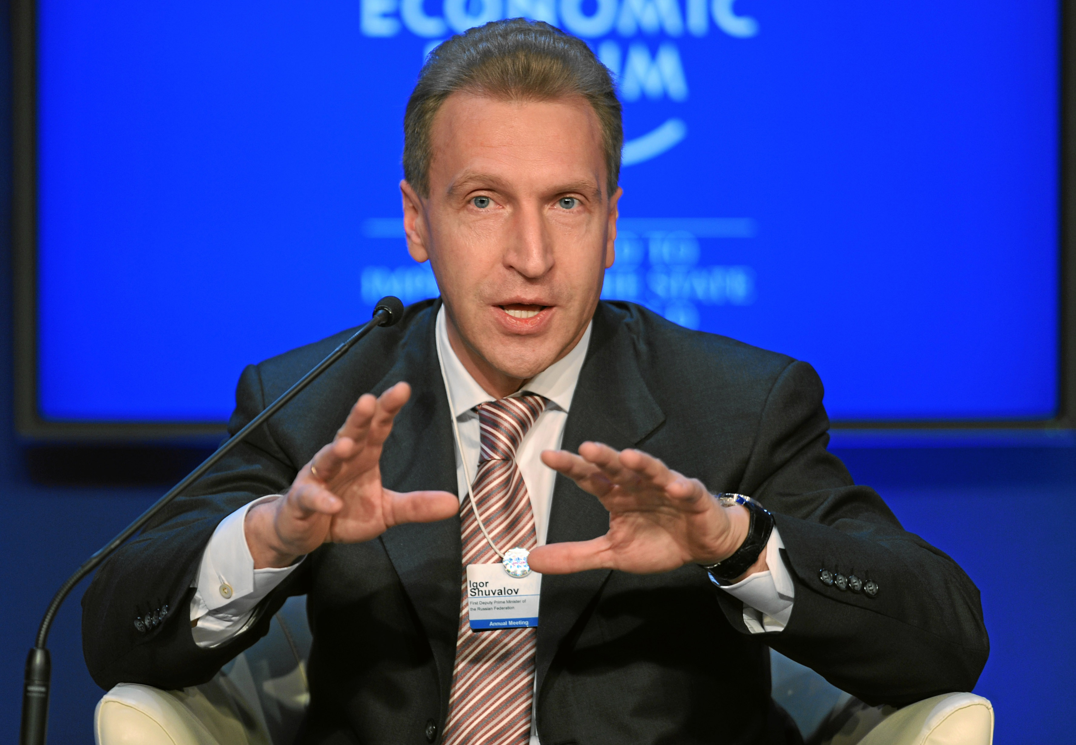 DAVOS/SWITZERLAND, 27JAN11 - Igor Shuvalov, First Deputy Prime Minister, Office of the Prime Minister of the Russian Federation, speaks during the session 'Russia's Next Steps to Modernization' at the Annual Meeting 2011 of the World Economic Forum in Davos, Switzerland, January 27, 2011. Copyright by World Economic Forum by Michael Wuertenberg